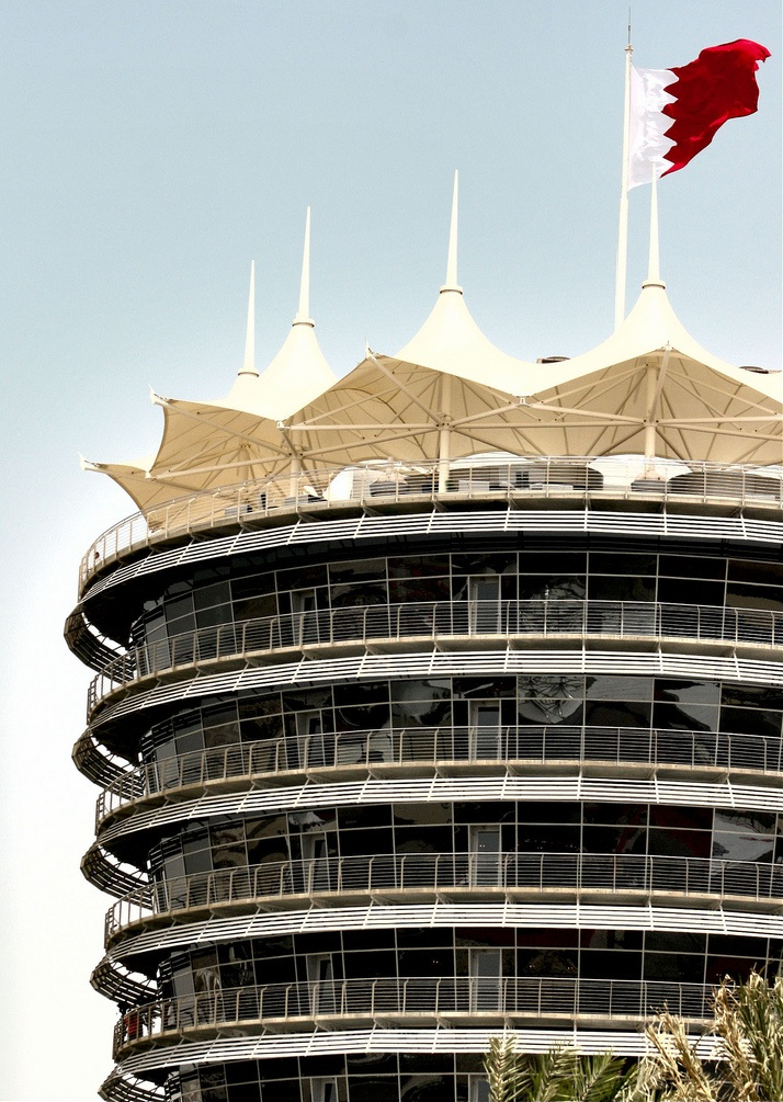 Main Grand Stand at the Bahrain International Circuit.